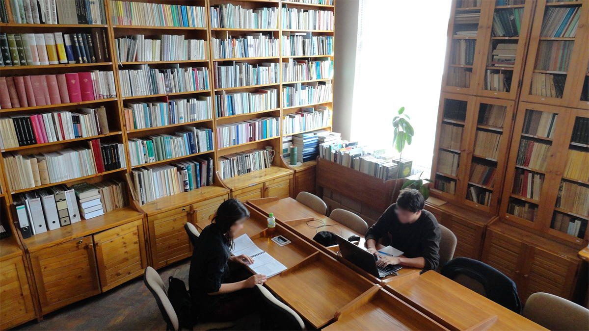 Kriza János Ethnographic Society - open shelf library